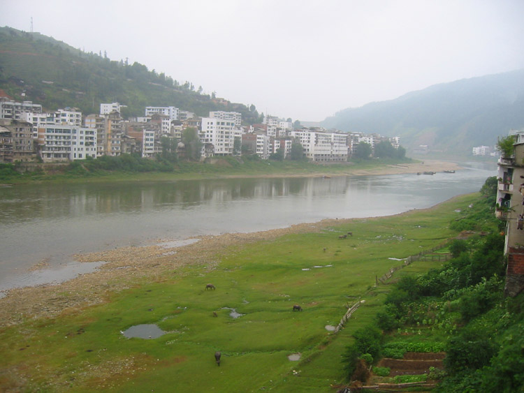 A view of the southern half of Congjiang from the Congjiang bridge